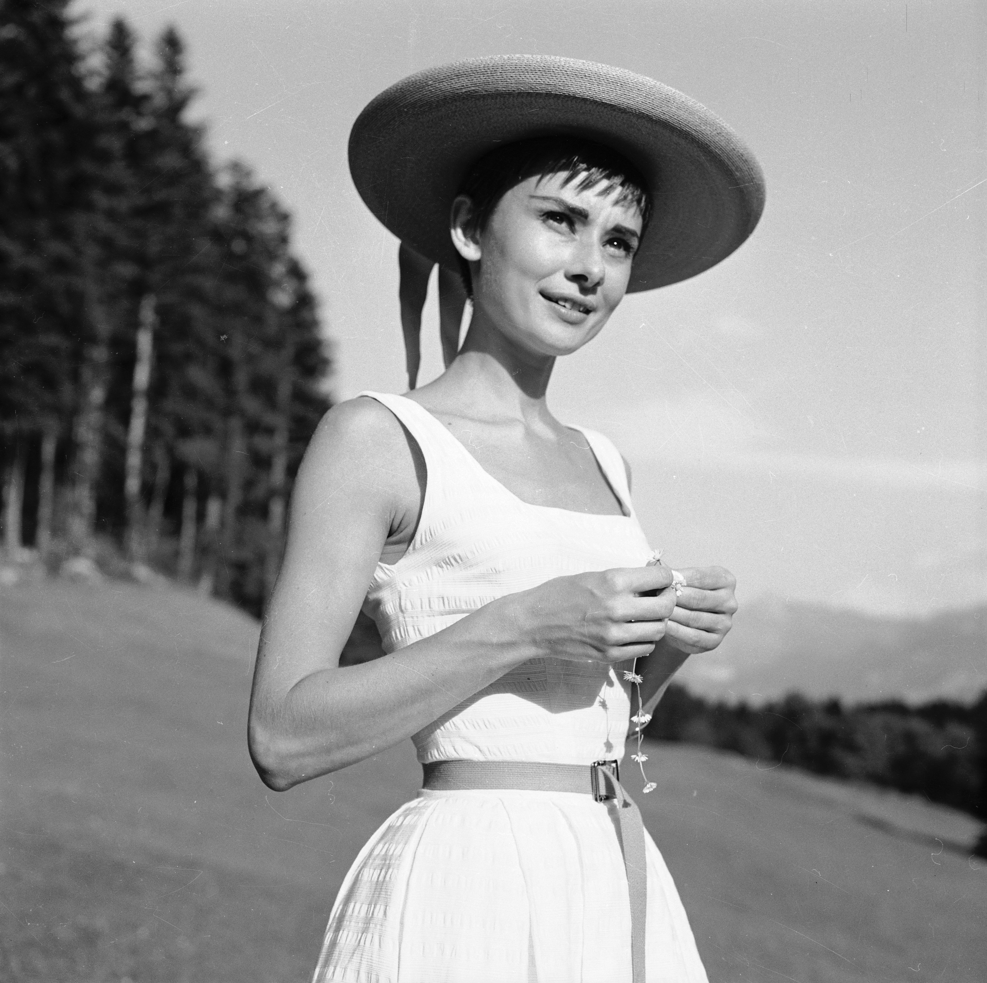 Audrey Hepburn, Bürgenstock, Switzerland